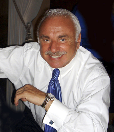 Portrait of Bob Citron